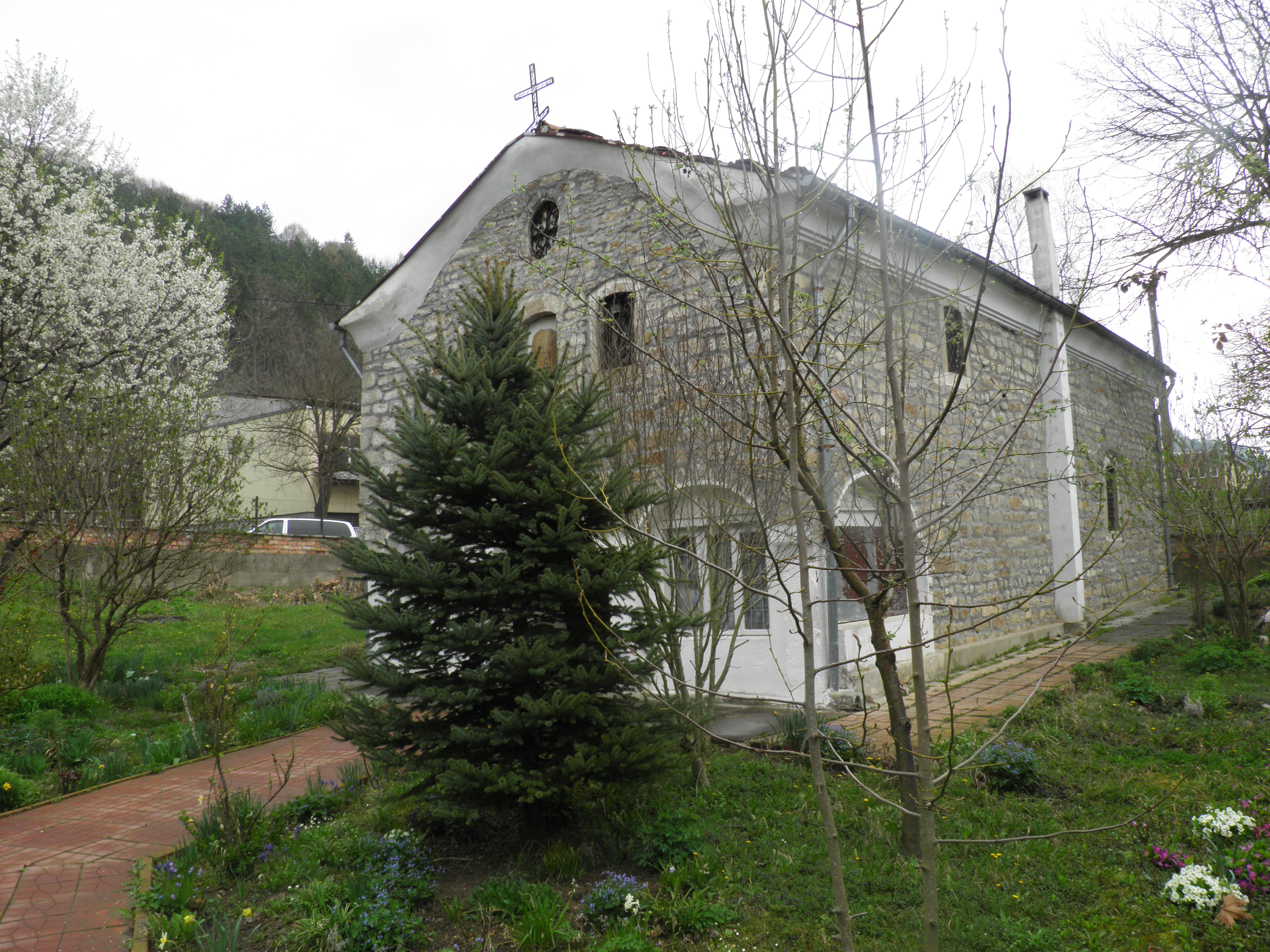 Orthodox Church "St.Arhangel Michael" ,Veliko Tarnovo